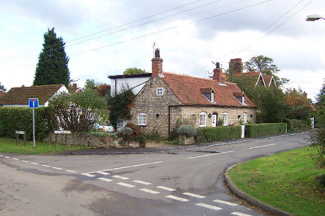 Old Stone Cottages. Old stone cottages, Churchside, Appleby, North Lincolnshire.